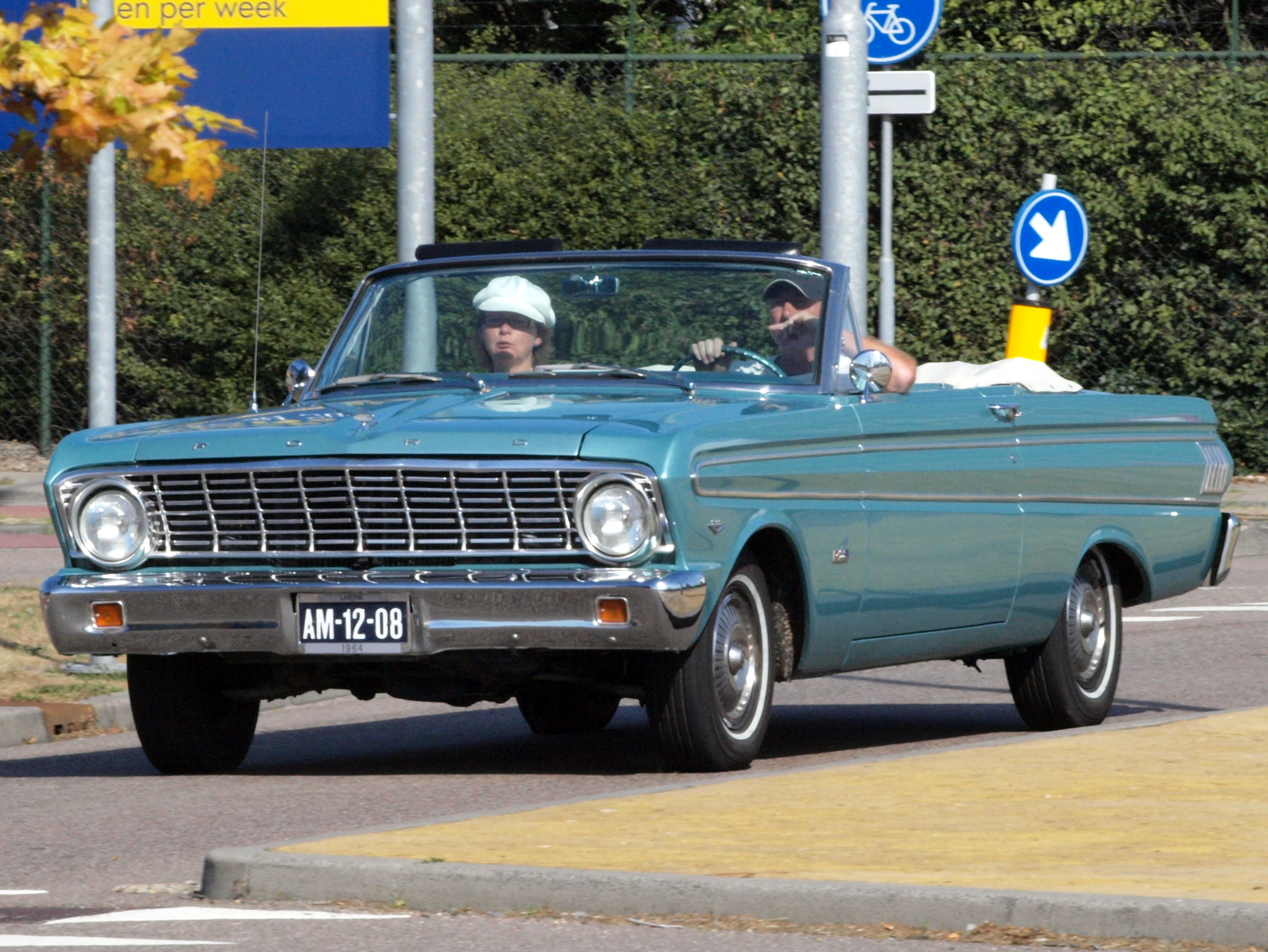 A 1964 Ford Falcon convertible